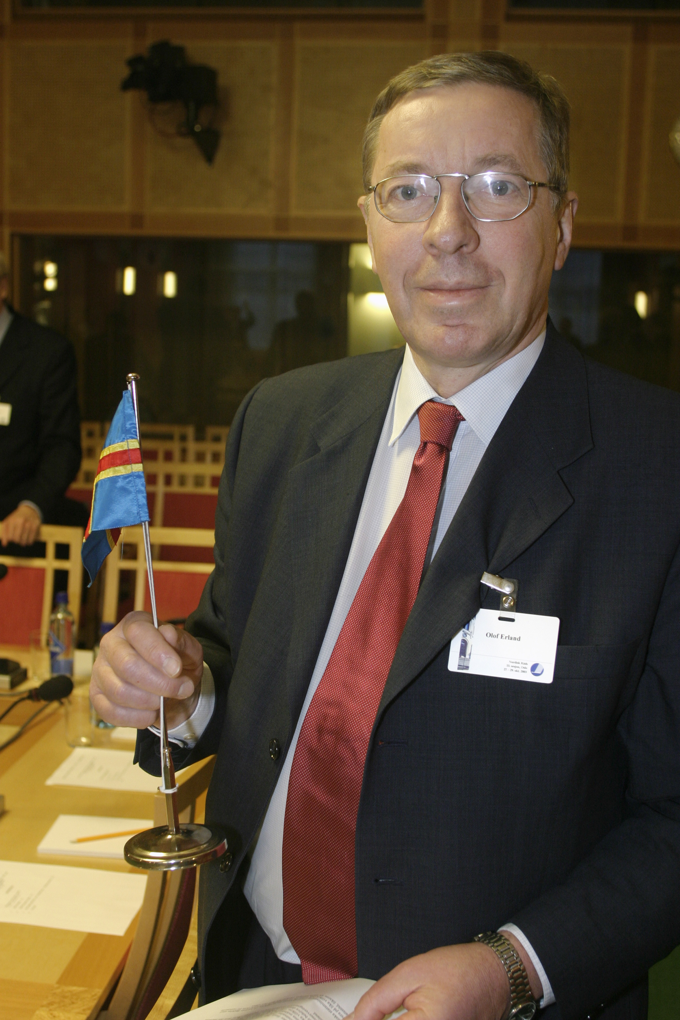 Olof Erland, politician from Åland in Oslo